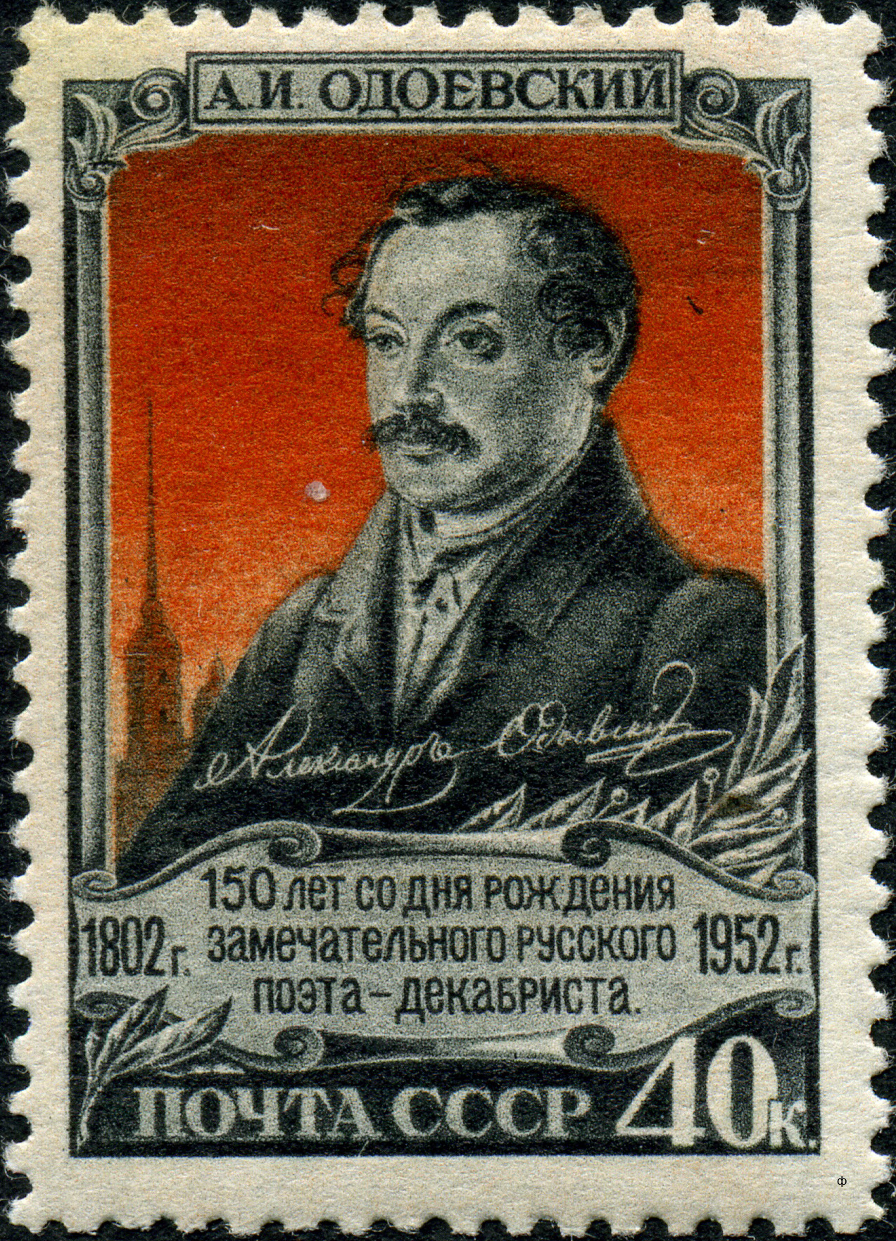 Soviet Union stamp, 150th birth anniversary of A. I. Odoyevsky (1802-1839), Odoyevsky's portrait from a drawing by N. Bestuzhev (1832); 1952, 40 kop., used, CPA No. 1708.